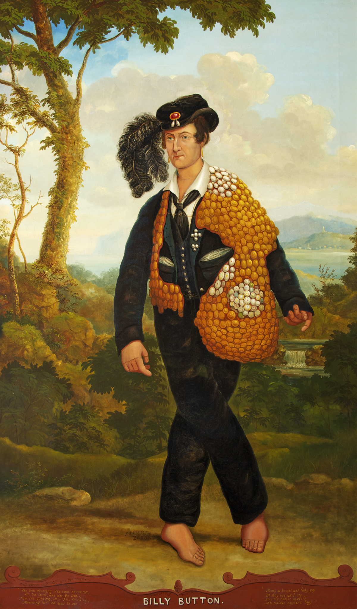 Dempsey, John Church; 'The Singing Minstrel', Billy Button (b.c.1778-1838); Bristol Museums, Galleries & Archives